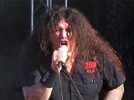 Chuck Billy of American thrash metal band Testament at Sweden Rock Festival, 2008.